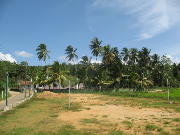 This is the centerpoint of Miella